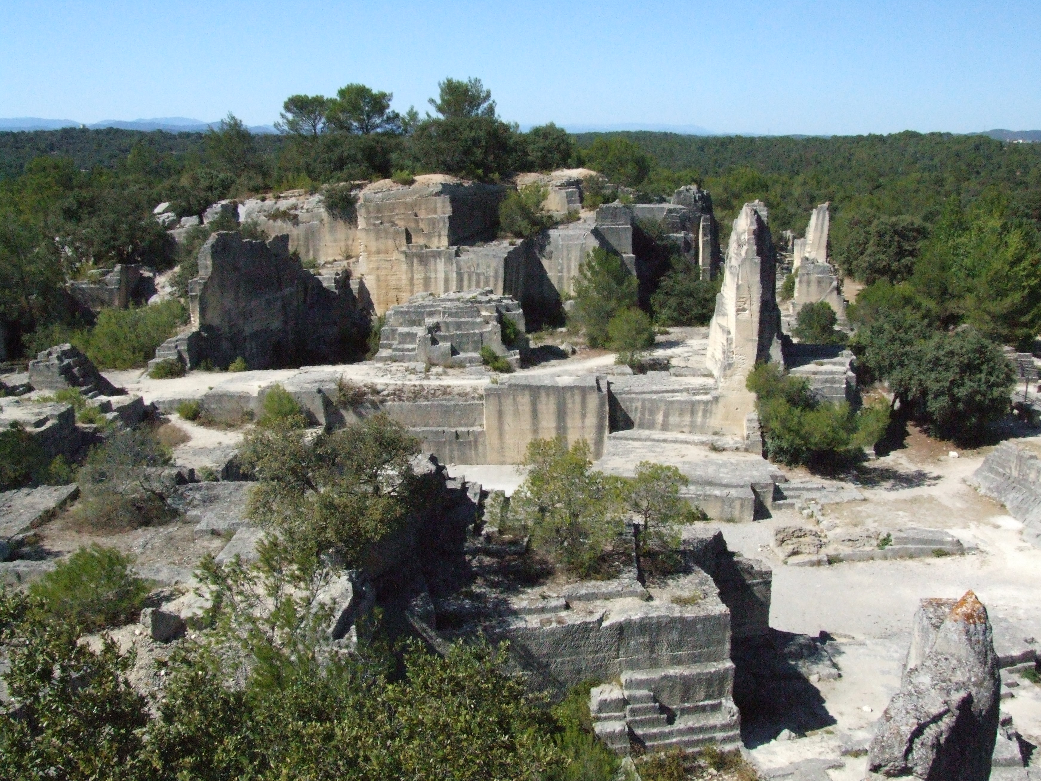 The commune of Junas, ( post code is F30250 and INSEE 30136) is situated north of the River Vidourle, south of Sommières in the departement of Gard. in the region Languedoc-Roussillon in southern France.The mediaeval village centre is similar to its neighbours, but the commune is noted for its quarry which dates from Roman times. The Quarry of Bon Temps is in the combe of the same name. The hard limestone was suitable for constructions, such as the bridge at Sommières, which for 2000 years has with stood the Vidourlades. The spectacular rock shapes make if a popular event venue hosting stone cutting workshops, and the Jazz à Junas concerts.